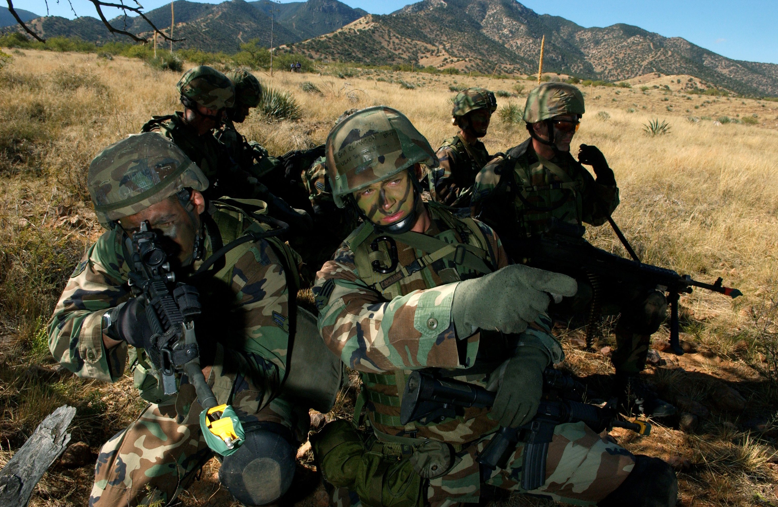 Fort Huachuca, Arizona -- Senior Airman Chris Clawson points out direction of a truck seen on a ridgeline during a tactics training reconnaissance mission Oct. 13. Members of the U.S. Air Forces in Europe Defender Challenge team are spending three weeks here in preparation for the 2004 Defender Challenge competition. Defender Challenge held at Lackland Air Force Base, Texas, is a security forces competition pitting competitors from major commands against one another. Airman Clawson is assigned to the 39th Security Forces Squadron, Incirlik Air Base, Turkey. (U.S. Air Force photo by Tech. Sgt. Justin D. Pyle)